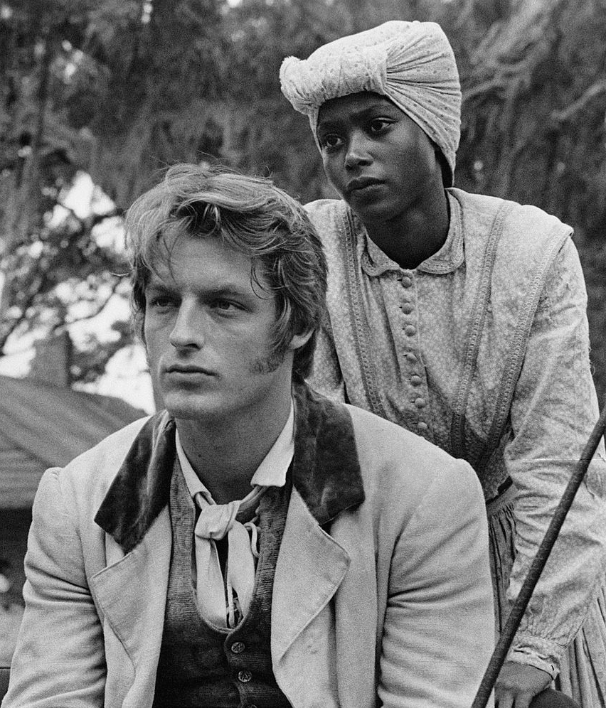 American actors Perry King and Brenda Sykes, showing a melancholy look, acting in the film Mandingo. 1975